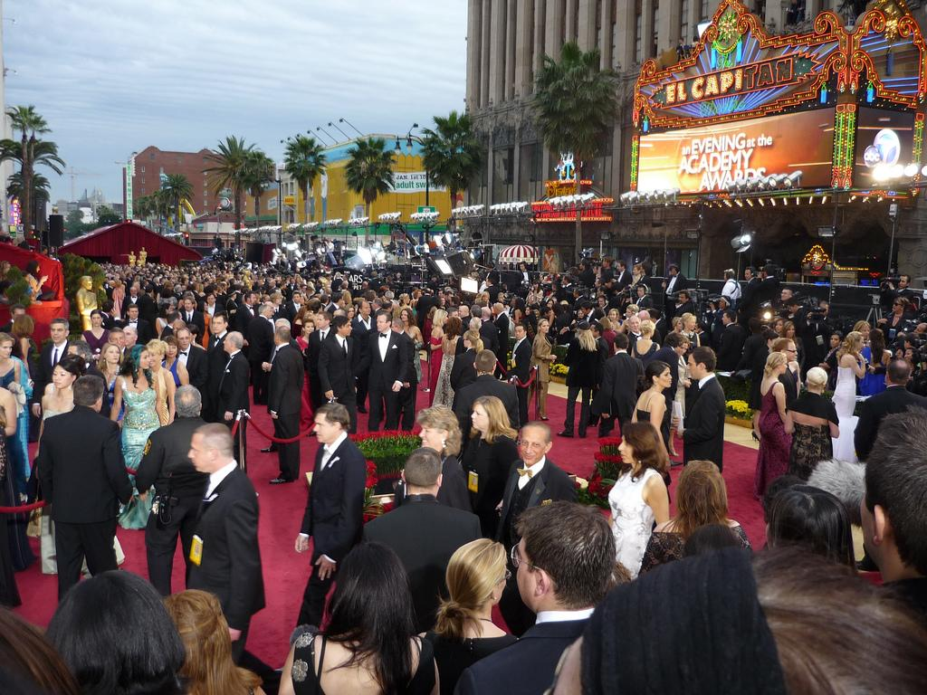 Red carpet at 81st Academy Awards.